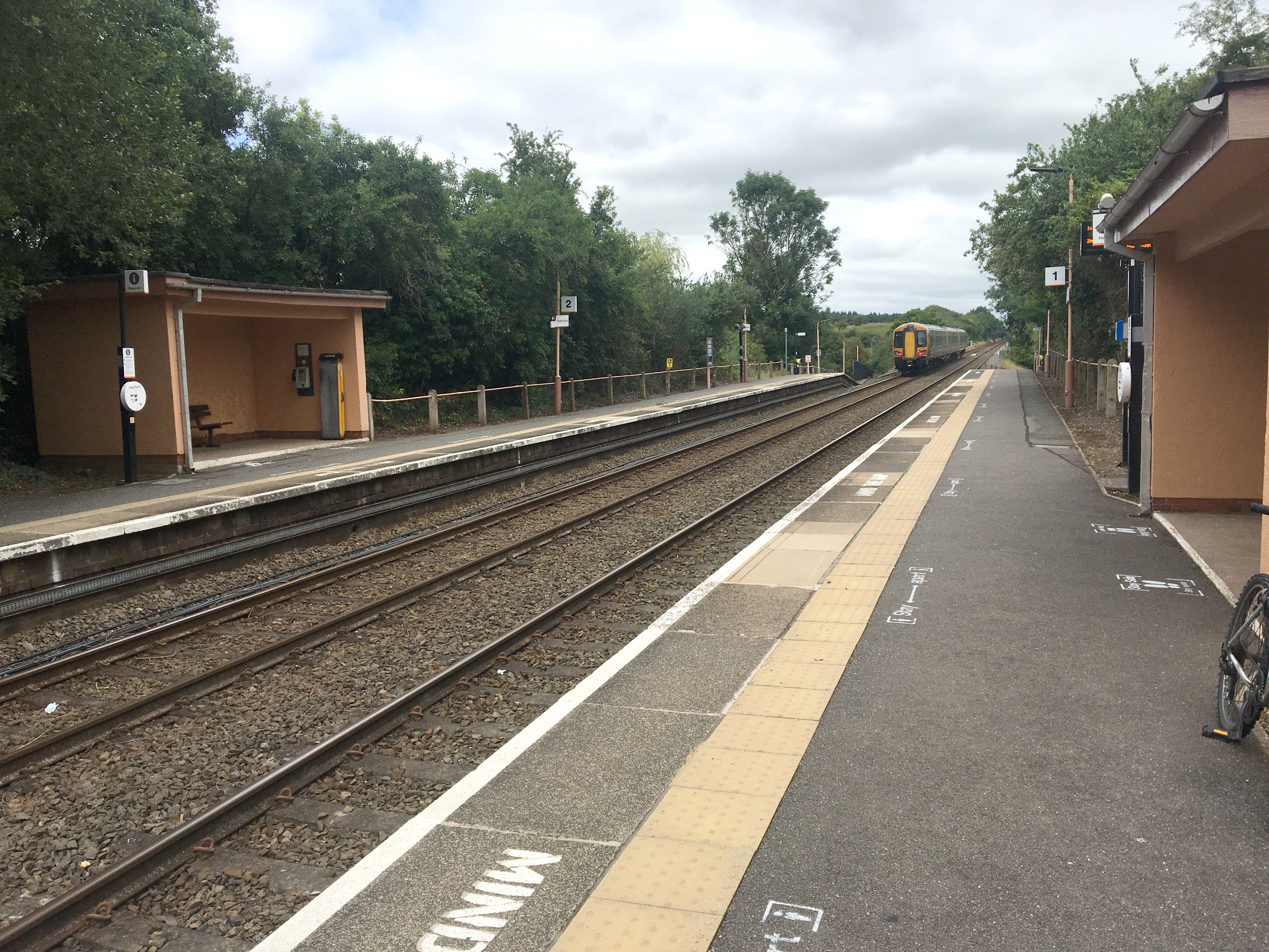 Wootton Wawen railway station serves the village of Wootton Wawen in Northern Warwickshire, England